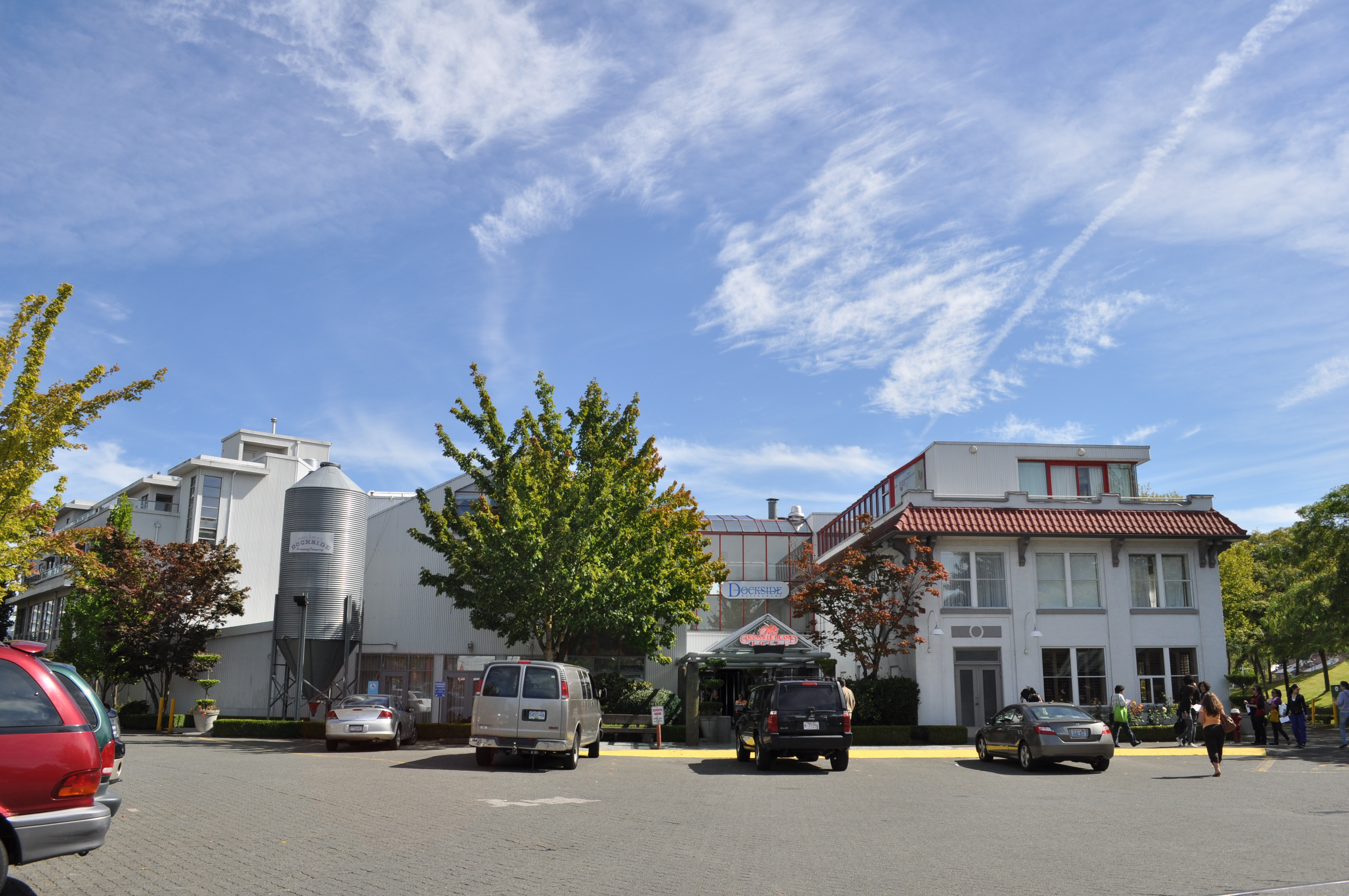 Granville Island Hotel, Granville Island, Vancouver, BC.